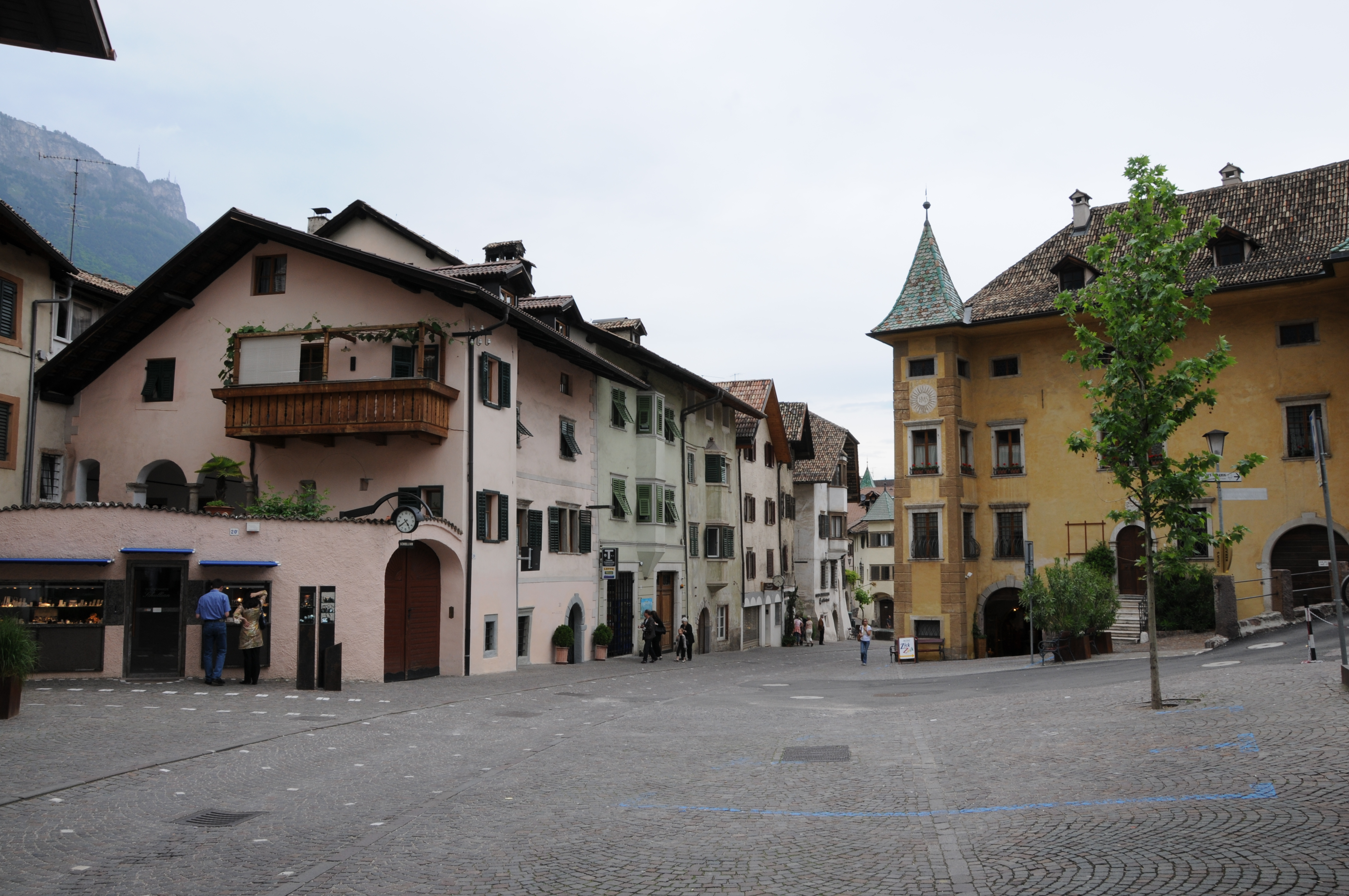 Kaltern, South Tyrol, Andreas-Hofer-Str.